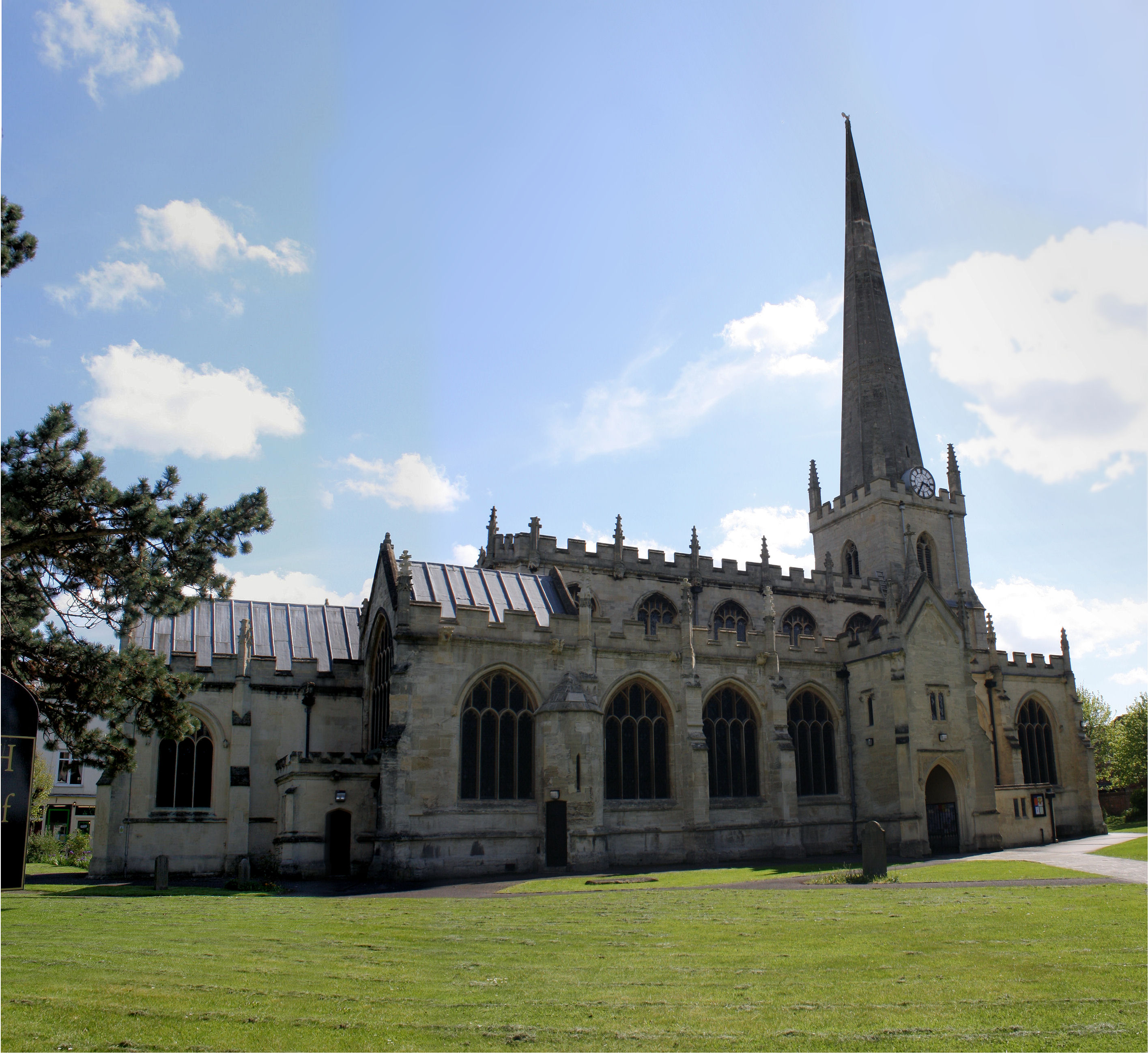 The Church of St James, Trowbridge